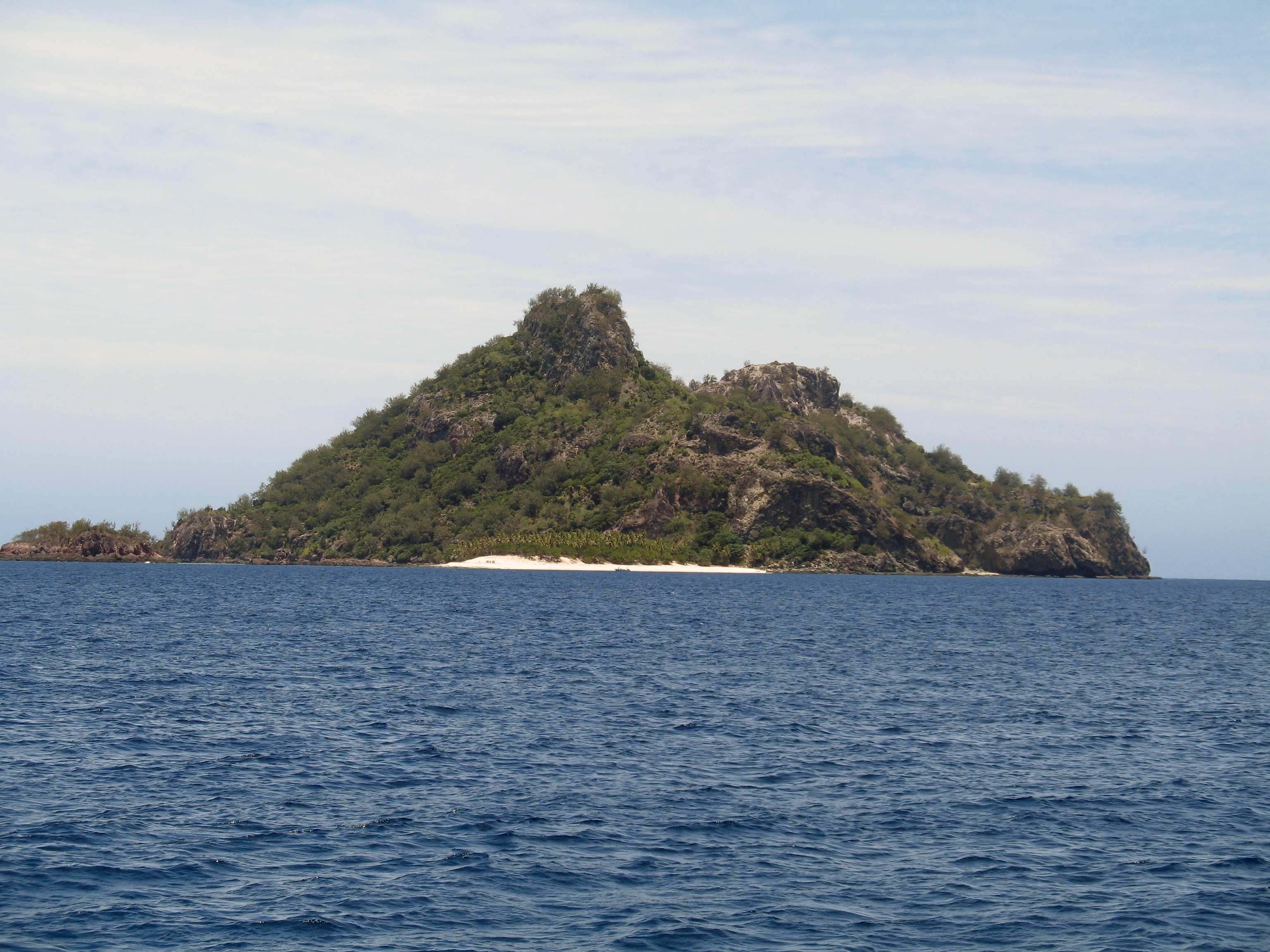 Monuriki Island, part of the Mamanuka Islands Group, Fiji Islands, Pacific Ocean.